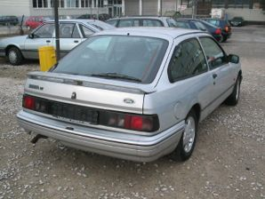 Ford Sierra liftback 2,0i GT from 1990.